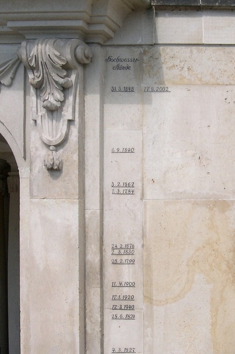 Flood levels in Dresden-Pillnitz Engraved signs show the flood level of the river Elbe on the walls of Pillnitz Castle. Note that the 2002 and 1845 levels are all about the same.